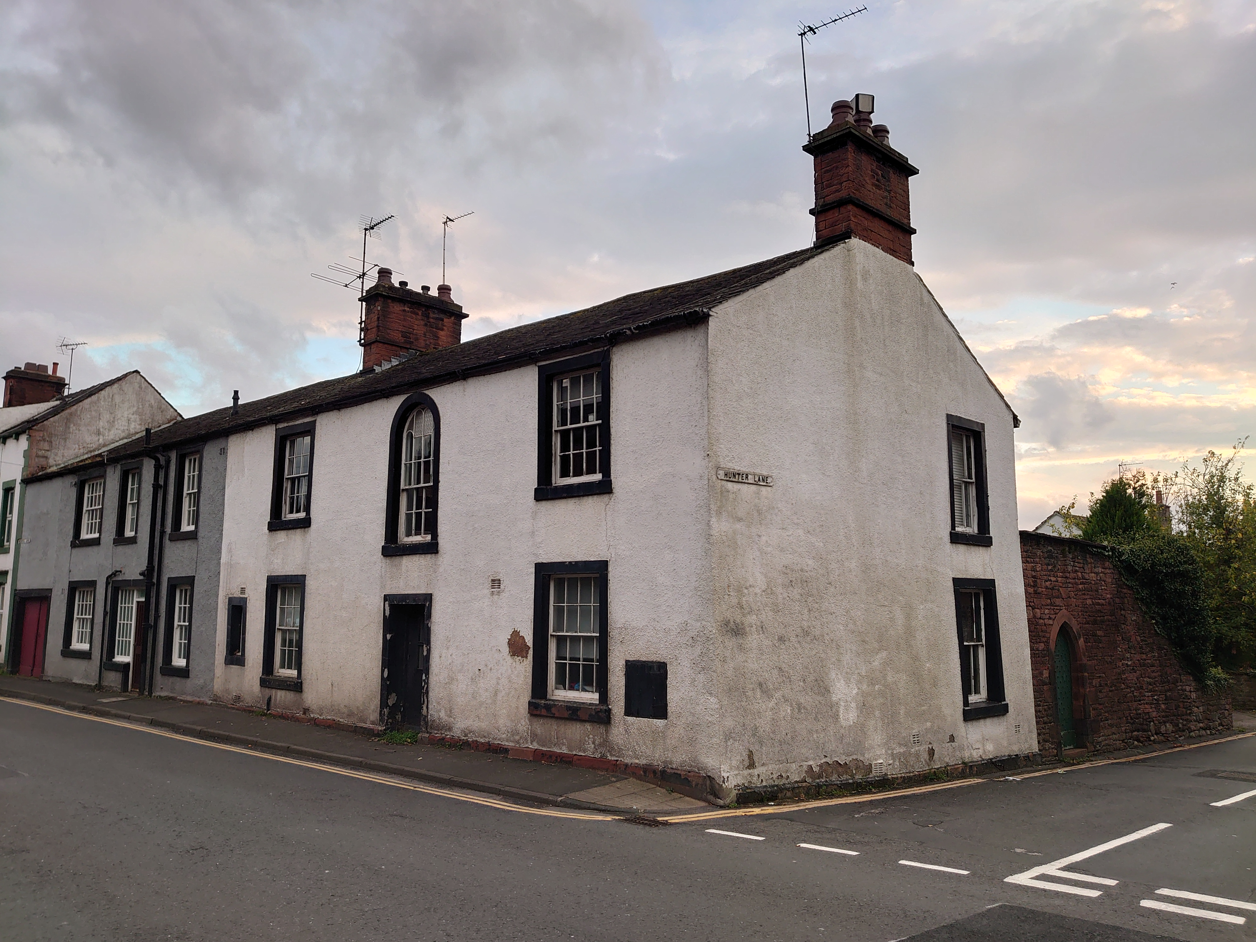 Hunter House